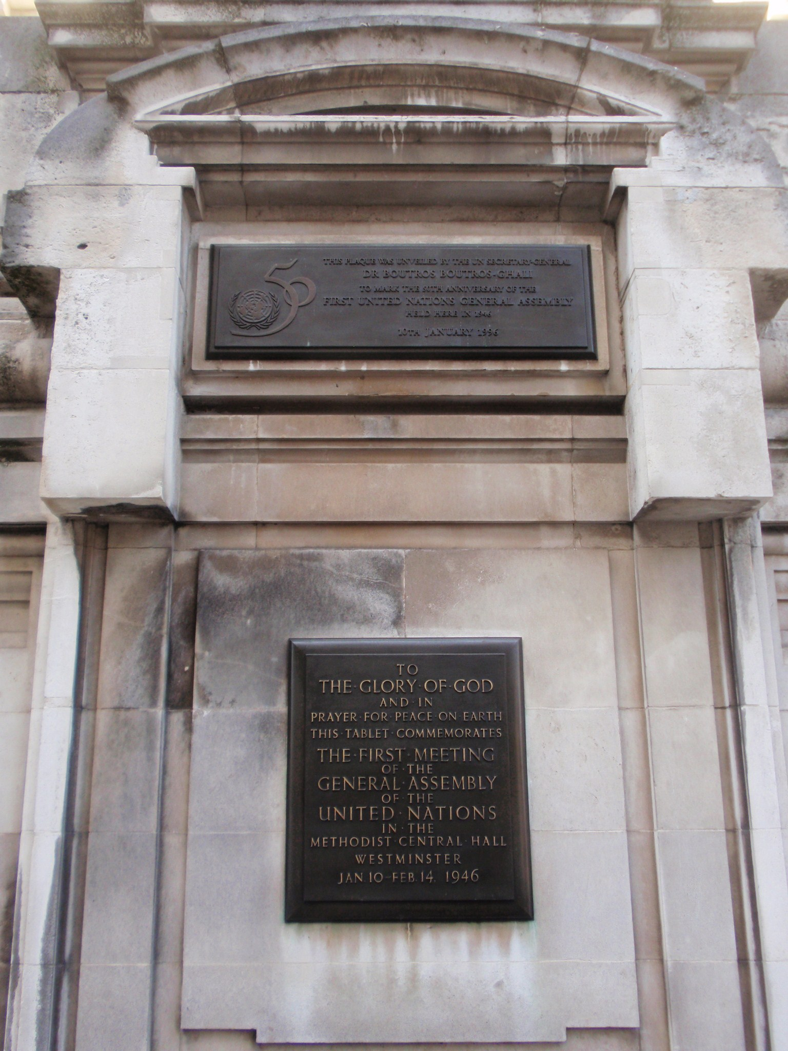 The 50th anniversary plaque of the first meeting of the United Nations General Assembly in Methodist Central Hall. City of Westminster, London